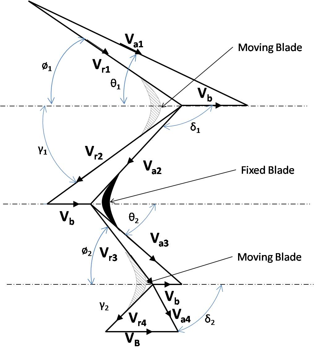 Velocity Diagram of Curtis Stage Impulse Turbine